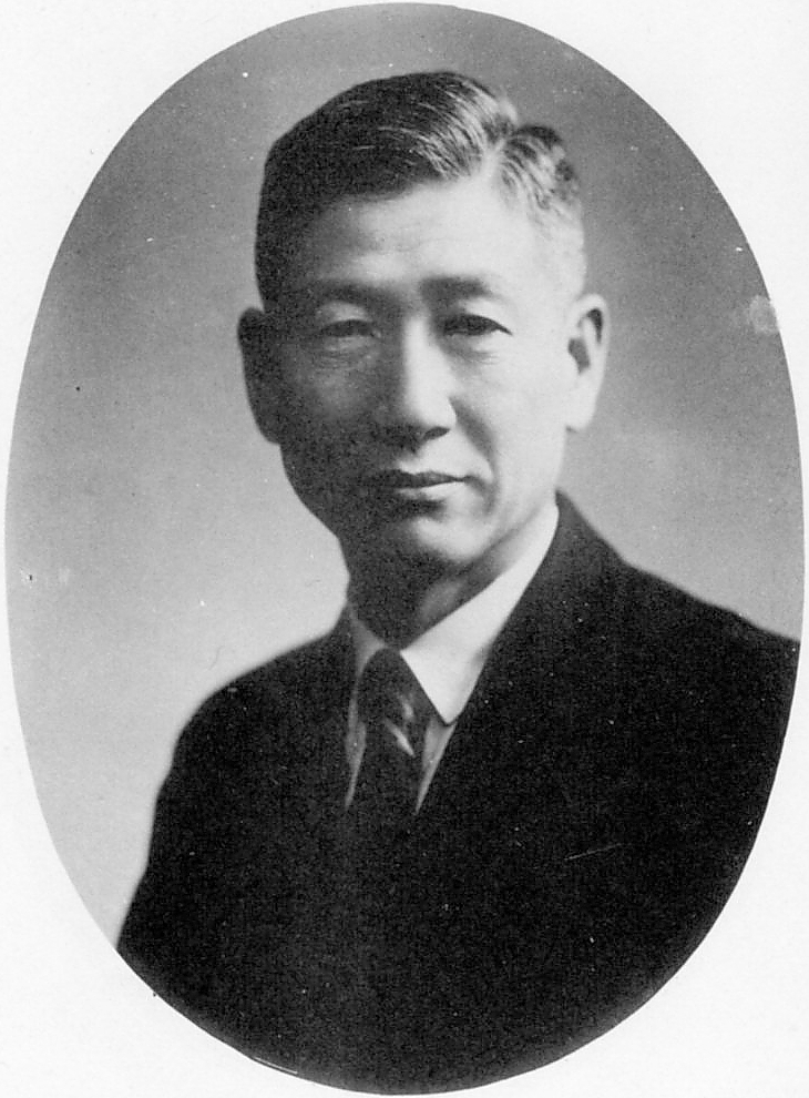 Fujinami Osamu